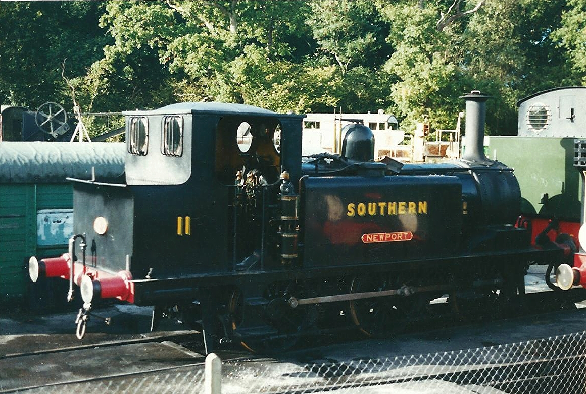 LBSCR Stroudley "A1X" 0-6-0T LBSCR No.40, SR (IoW section) No.W11 "Newport" (as pictured), SR No.2640, BR No.32640 at Haven Street, Isle of Wight Steam Railway, 10/00. In 1938 SR Bulleid plain black livery though with 1945 Bulleid "Sunshine" lettering. Scanned photograph taken with a Miranda MS-1N.